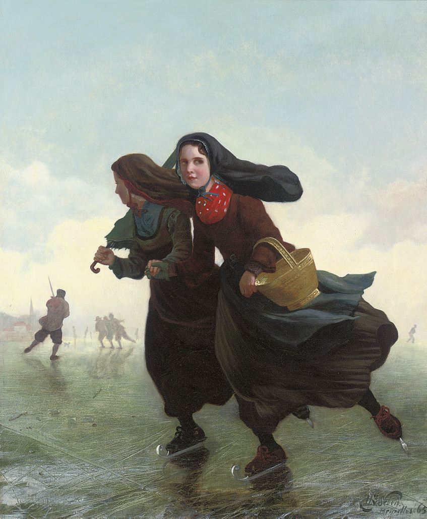 Skaters on a frozen waterway